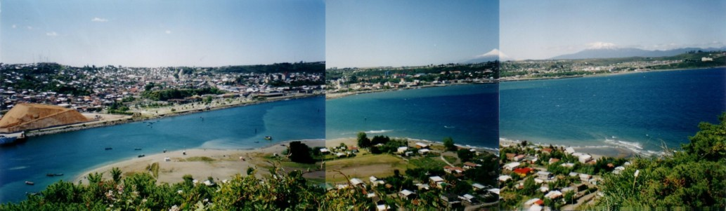 Puerto Montt, view from Tenglo